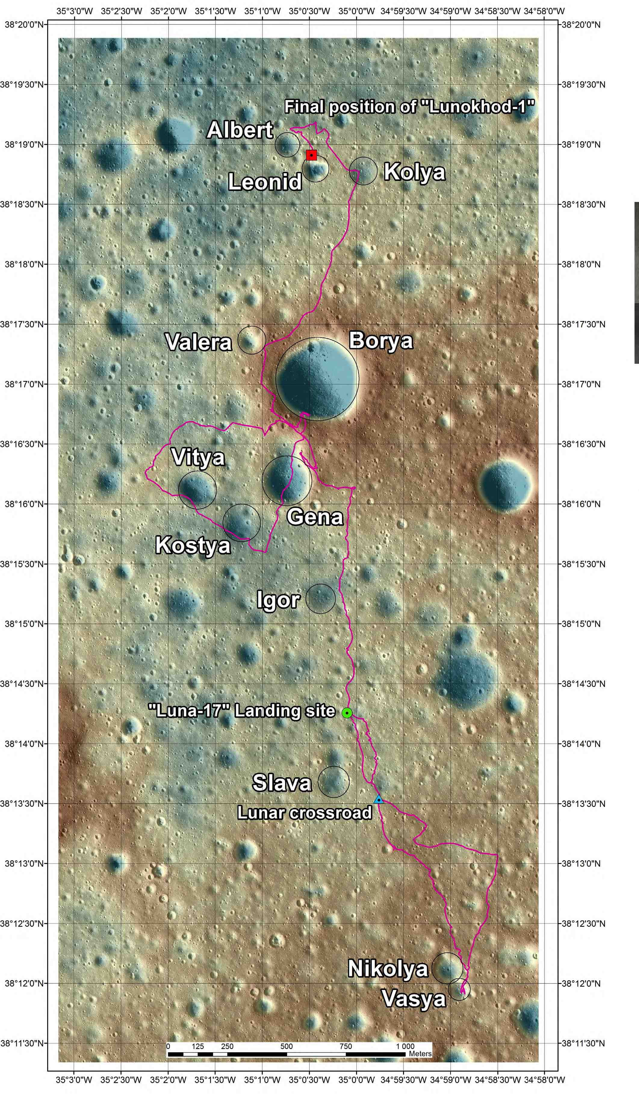 Small craters named en route Lunokhod-2